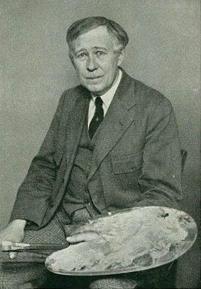 Carl "Karl" Holger Jacob Schou (1870-1938), Danish painter